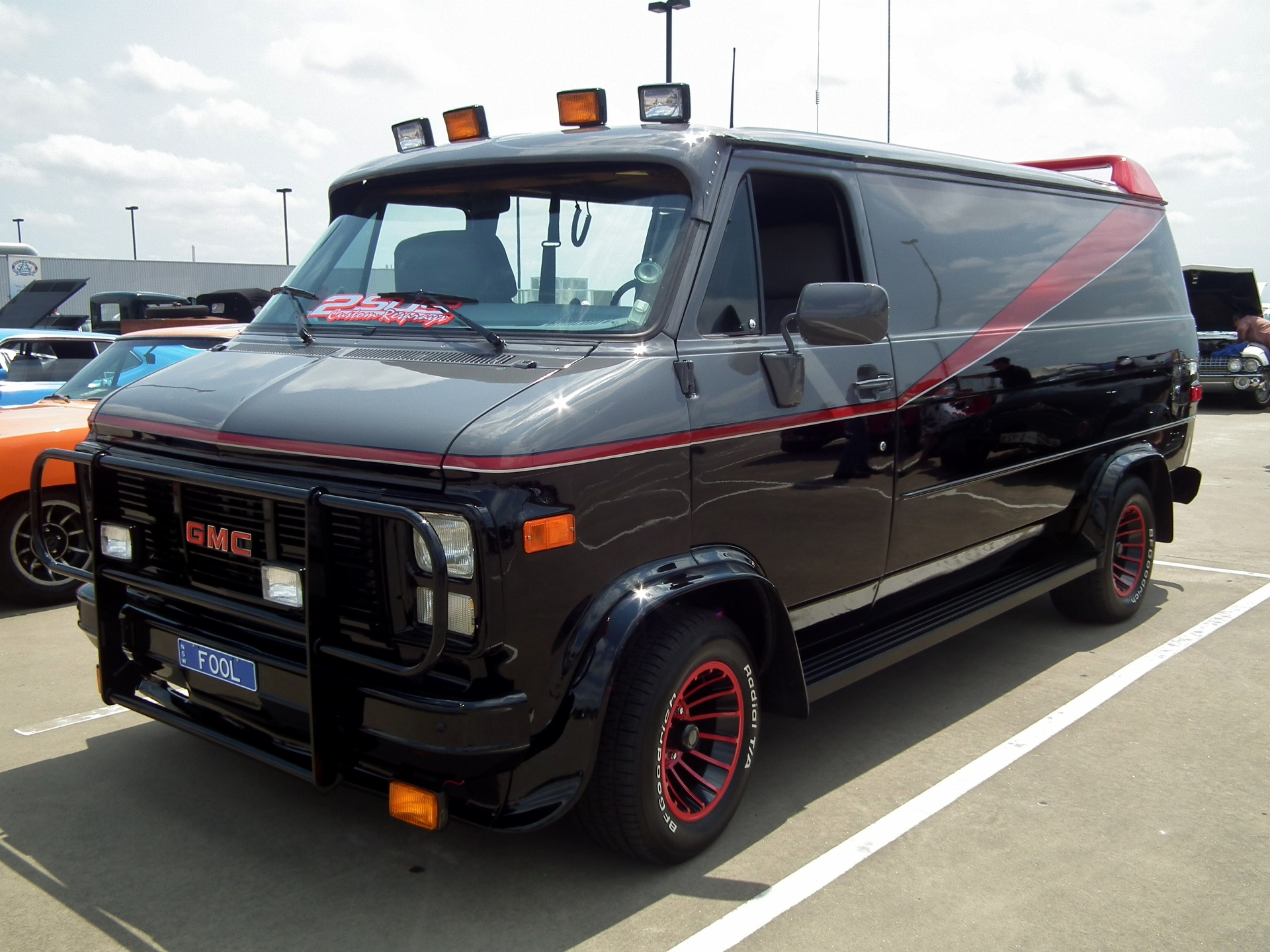 1983 GMC G-Series panel van - A Team. Taken at the 2014 New South Wales All American Day, held at Castle Towers Shopping Centre, Castle Hill, Sydney.